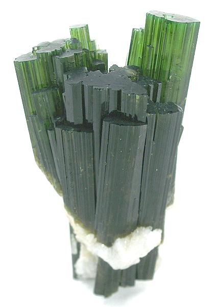 Elbaite Locality: Virgem da Lapa, Jequitinhonha valley, Minas Gerais, Southeast Region, Brazil (Locality at ) Size: 5.8 x 2.9 x 3.5 cm. This superb cluster of tourmaline crystals is from the Virgem da Lapa area, known more for topaz than for tourmaline. It is complete all around and has excellent, glassy lustre to it. The 3-dimensional geometry is really interesting and visually makes the piece look bigger than it really is. It was obtained from well-known dealer Carlos Barbosa, in Brazil, in April of 1976. Ex. Dr. Stephen Smale Collection.